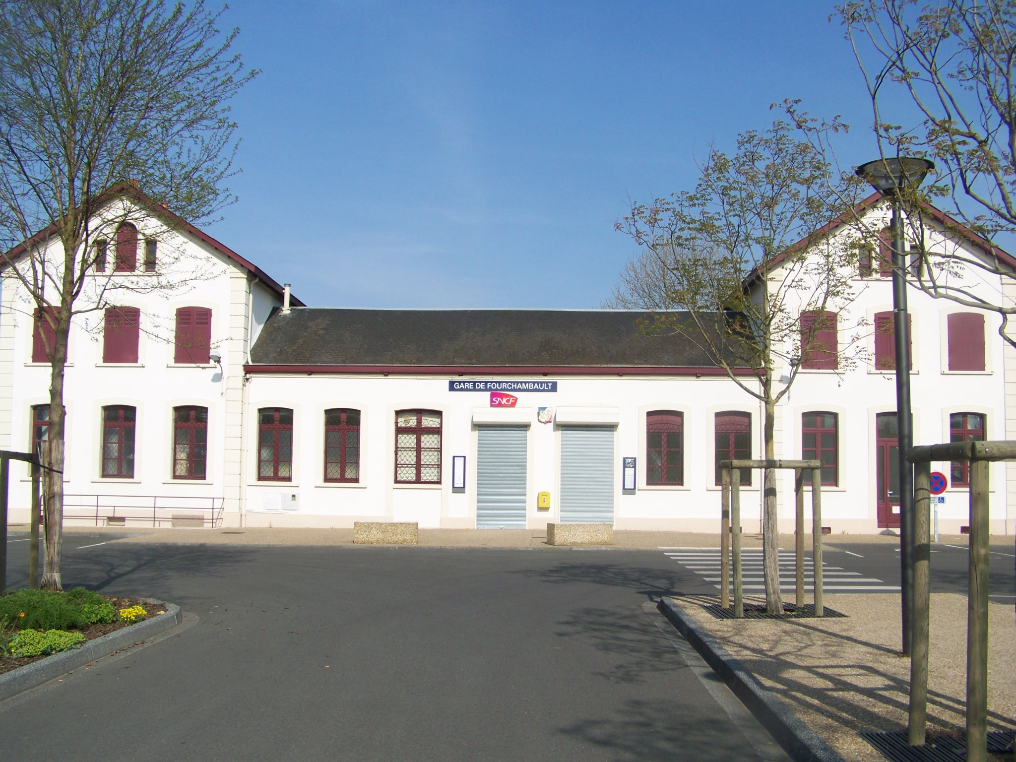 Building of Fourchambault railway station in Nièvre, France.